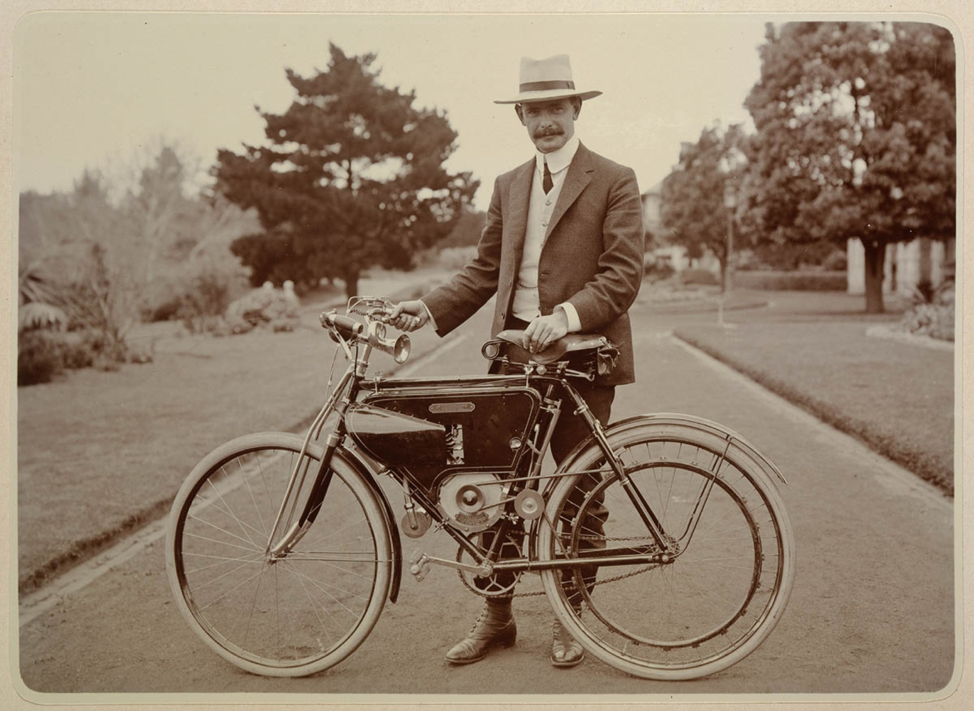 Format: Photograph Find more detailed information about this photograph: .au/item/itemDetailPaged.aspx?itemID=431585 Search for more great images in the State Library's collections: .au/search/SimpleSearch.aspx From the collection of the State Library of New South Wales